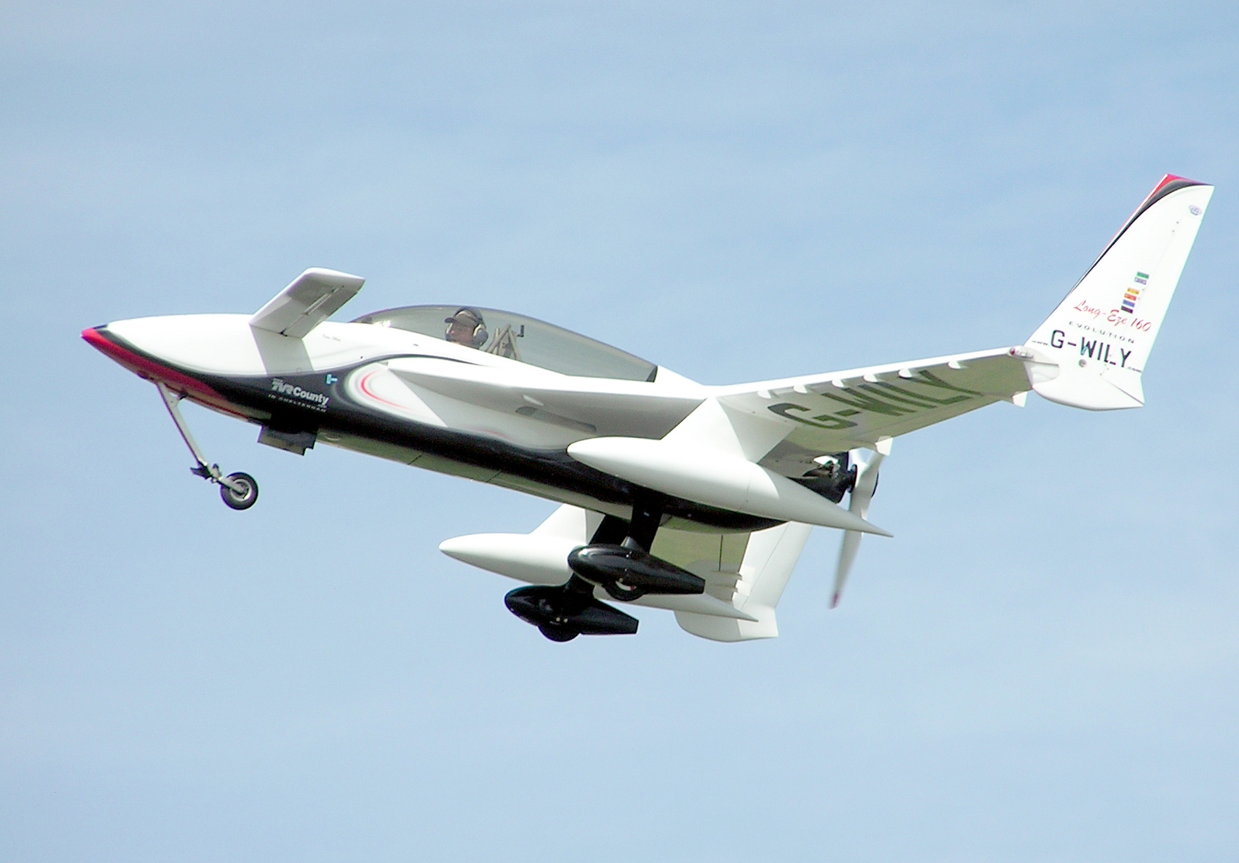 Rutan Long-EZ 160 (UK registration G-WILY) taking off at Kemble Airfield, Gloucestershire, England. Home-built by Bill Allen in 1984, in Cheltenham, England. The aircraft took 3 years to construct. Photographed by Adrian Pingstone in July 2005 and placed in the public domain.